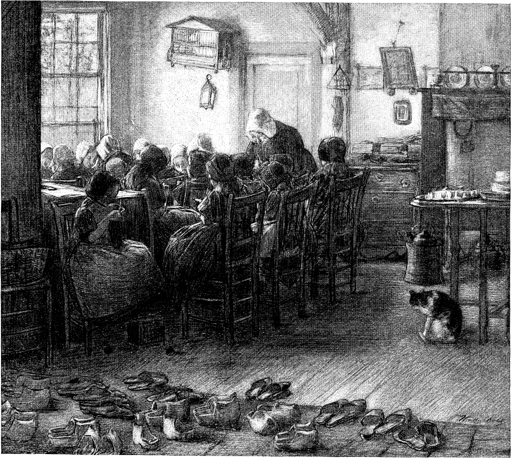 Modern Dutch Painters Sewing-school From a drawing by Miss Wally Moes Owned by William Macbeth